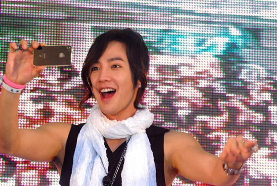 Jang Guen Sok, a South Korean model, actor, singer, etc., at Siam Discovery, Bangkok, January 8, 2011